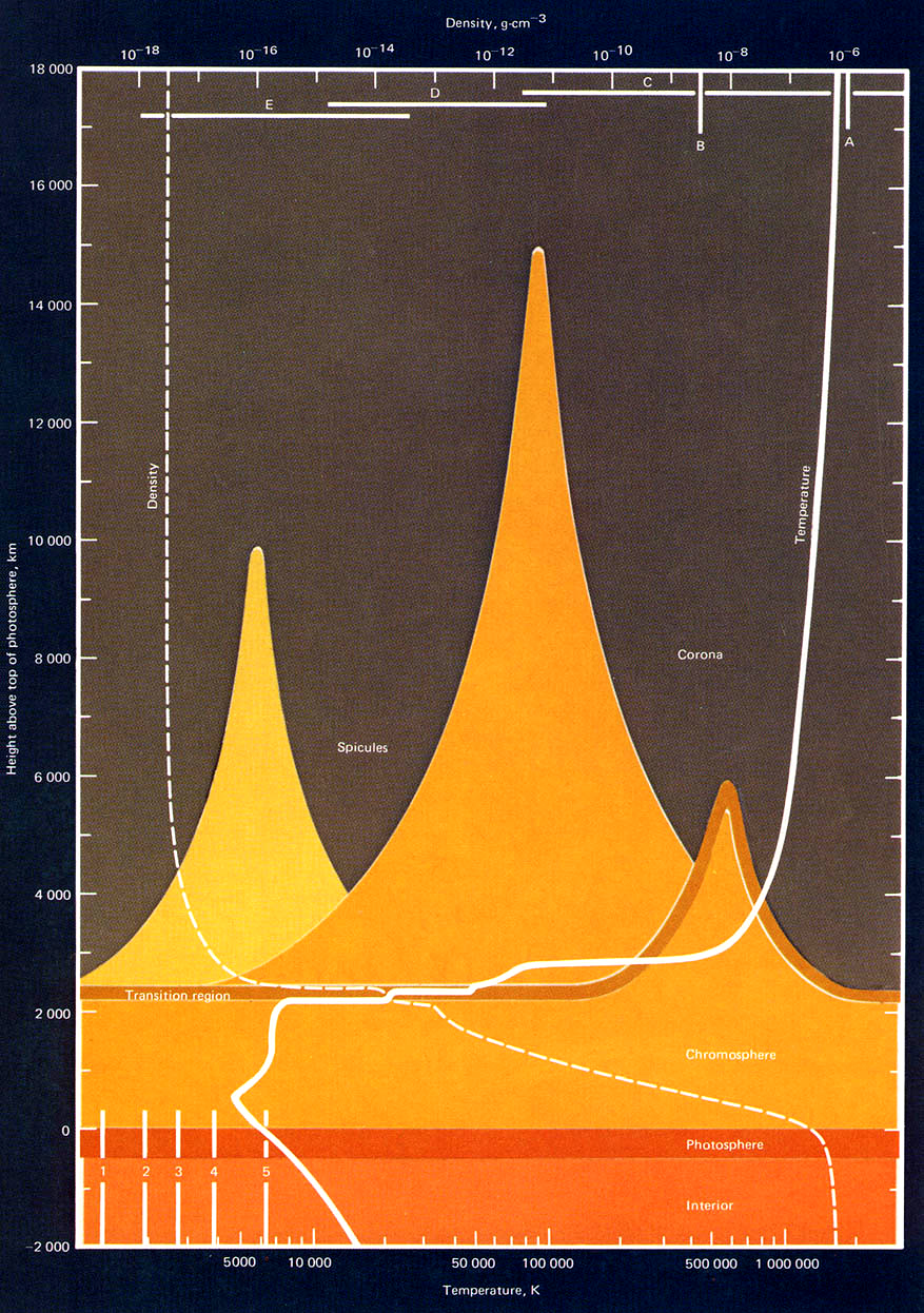 Temperature and density of the Sun's atmosphere from SP-402 A New Sun: The Solar Results From Skylab by John A. Eddy Edited by Rein Ise Prepared by: George C. Marshall Space Flight Center National Aeronautics and Space Administration, Washington, D.C. 1979